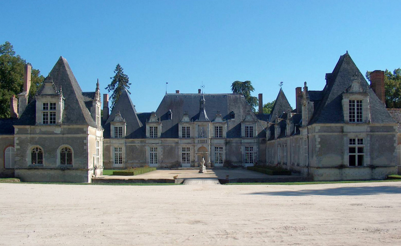 Château de Villesavin, north-western aspect